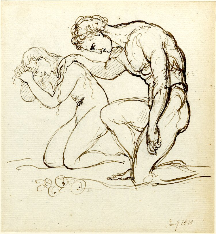 Adam and Eve, illustration to Milton's 'Paradise Lost," pen and brown ink, by the British artist Sir George Hayter. 153 mm x 142 mm. Courtesy of the British Museum, London.